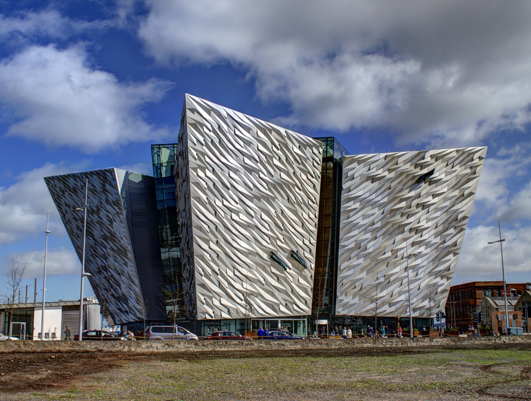 Titanic Belfast from the front